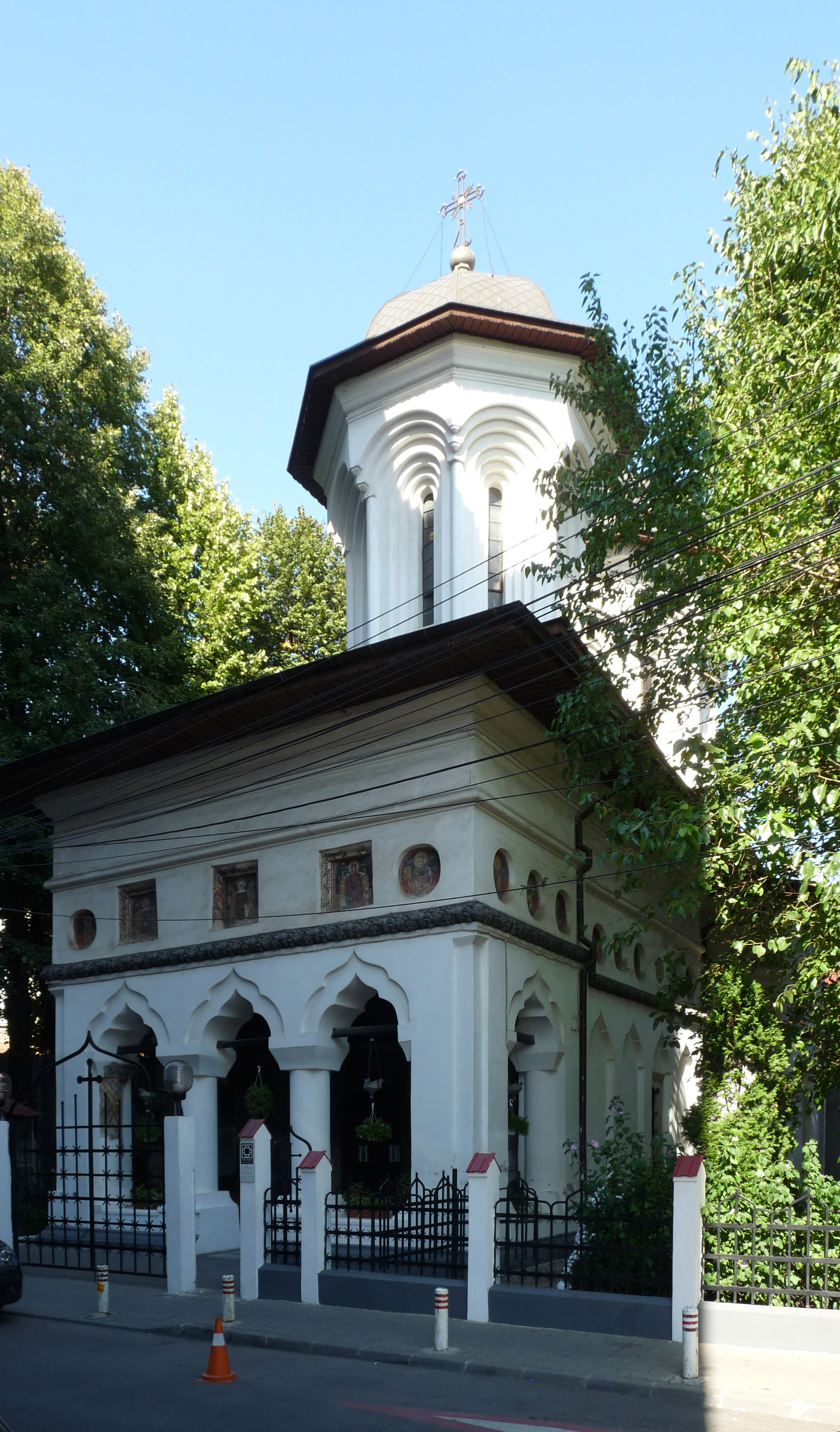 St. Nicholas' church ("Batiște") in Bucharest, RomaniaRomână: Biserica Sf. Nicolae („Batiște”) din București, România